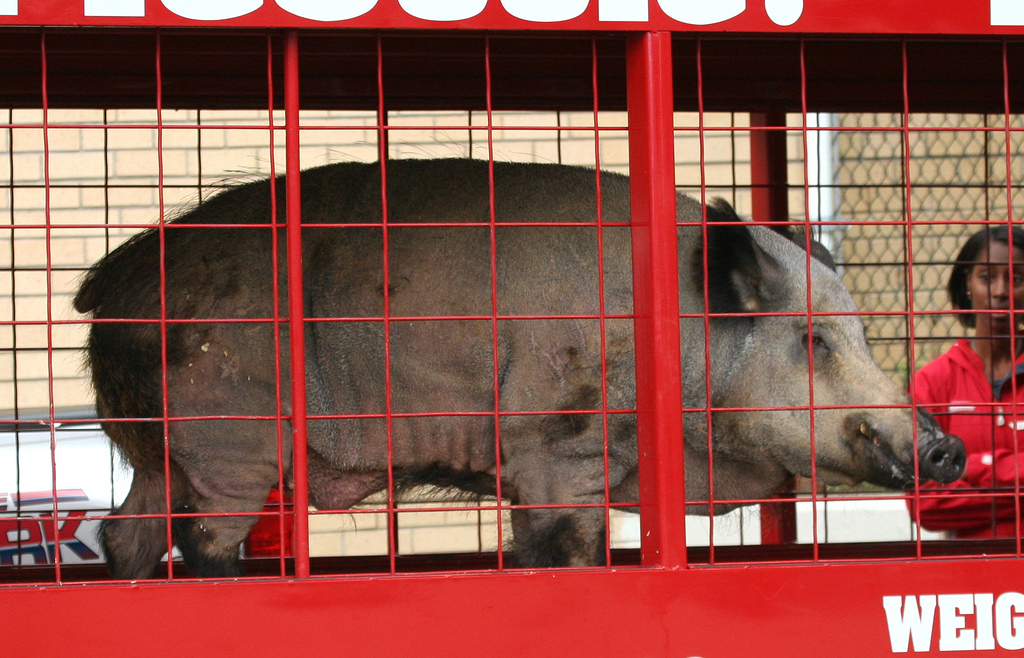 Tusk III in his trailer.